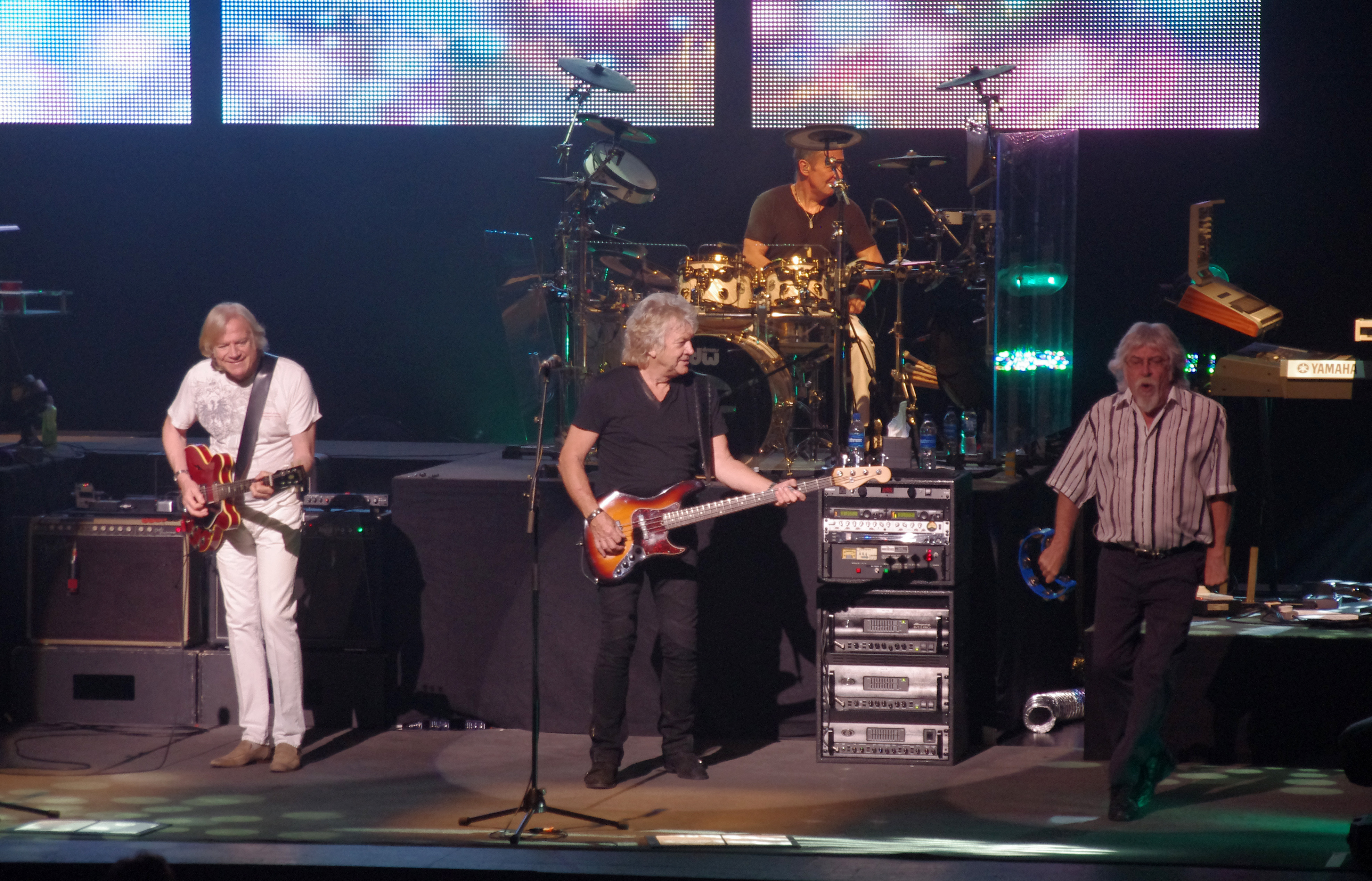 The Moody Blues perform onstage at the Bristol Hippodrome.